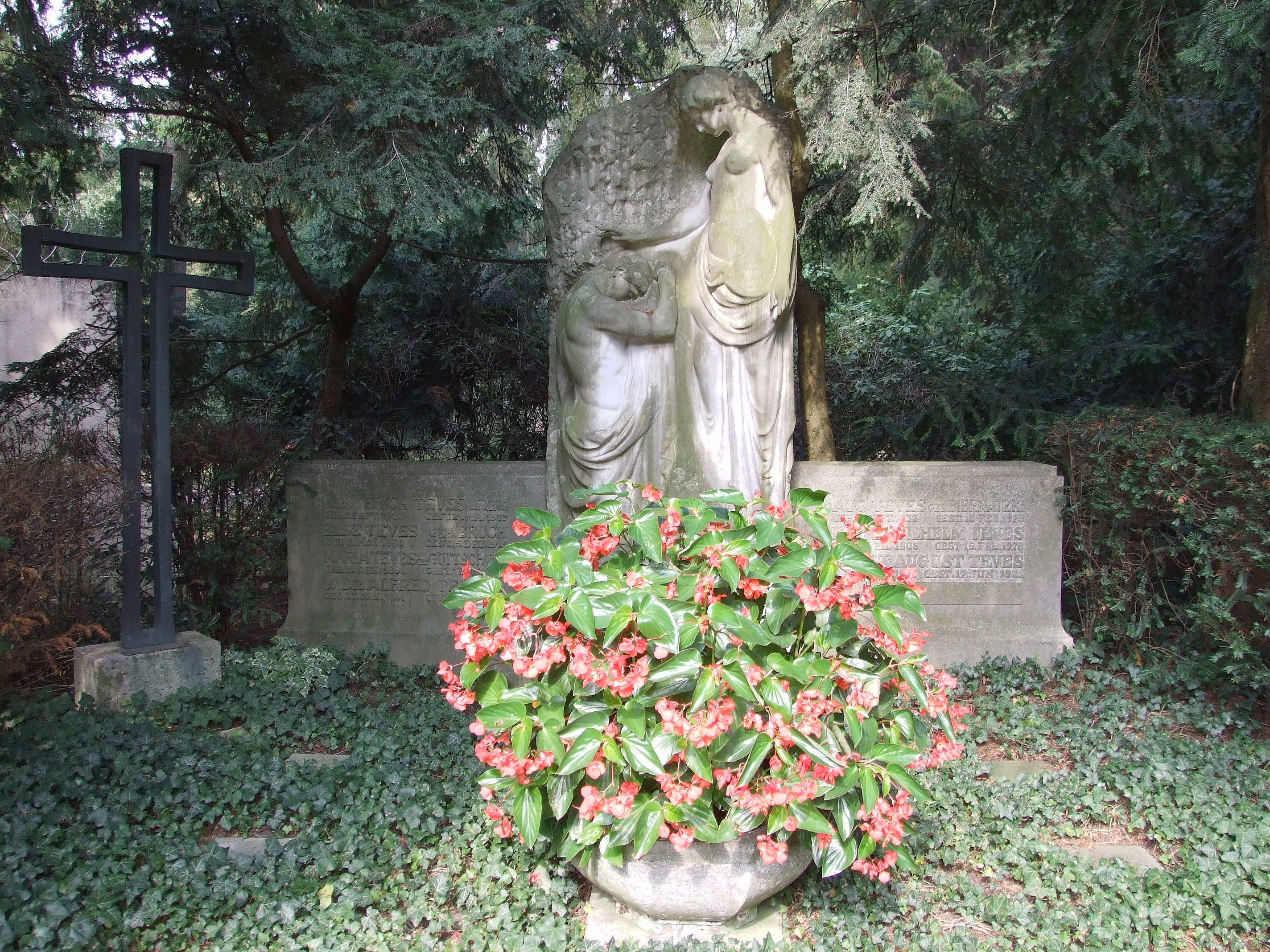 The Teves family grave, Hauptfriedhof, Frankfurt am Main, Germany